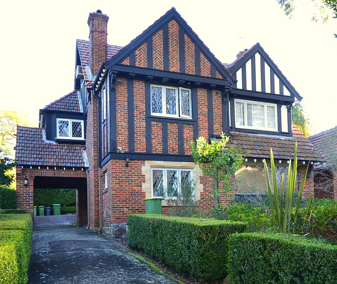 house, Killara, Sydney